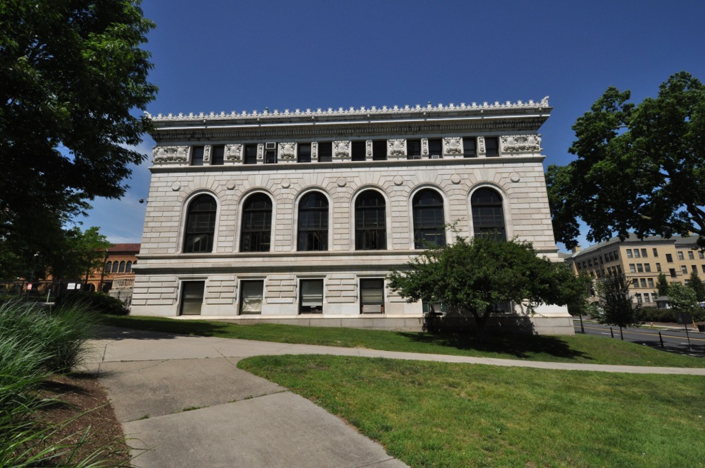 Side view of the central library, Springfield, Massachusetts.